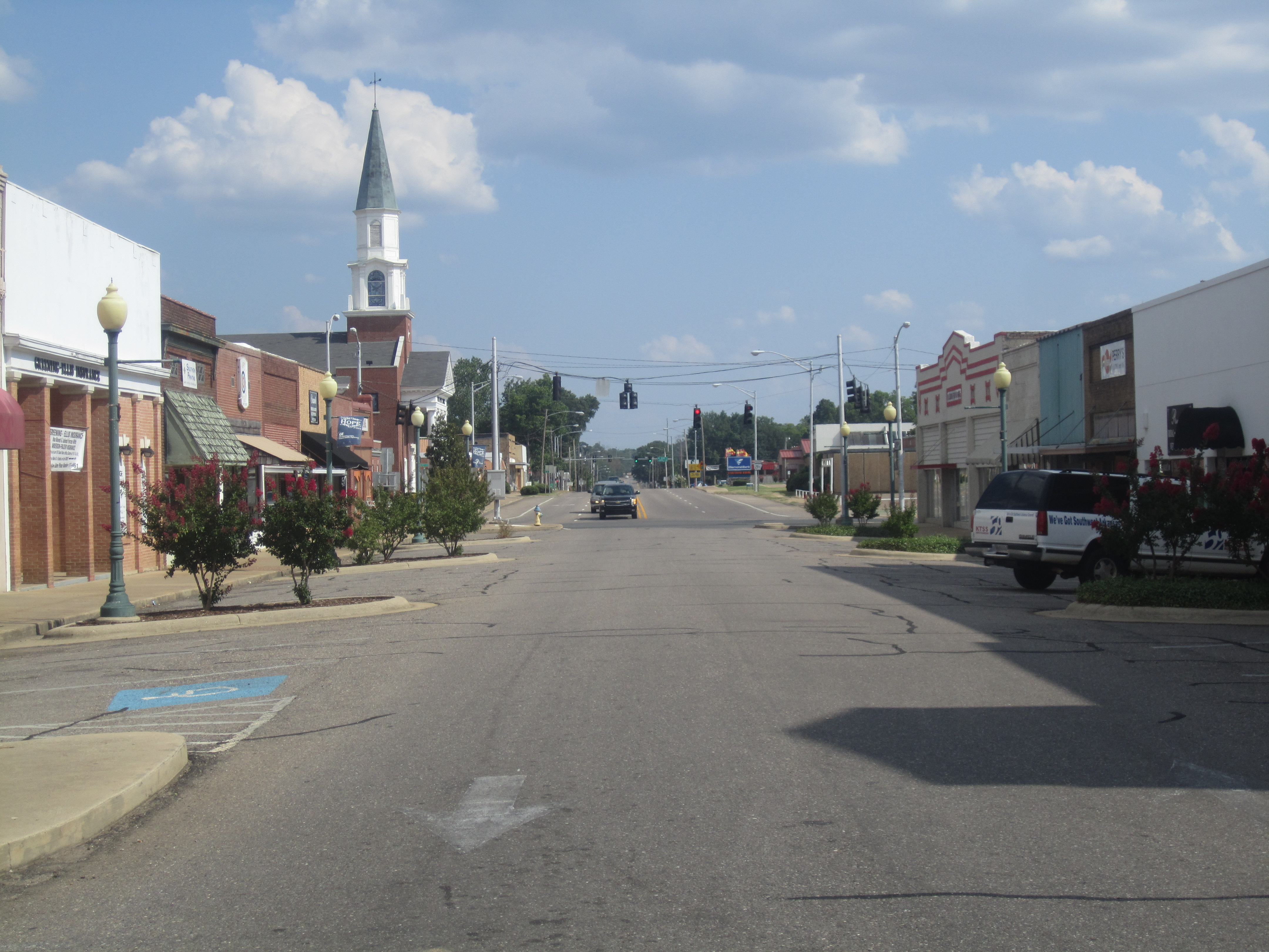 I took photo in Hope, AR, with Canon camera on June 9, 2012. Billy Hathorn (talk) 19:04, 28 June 2012 (UTC)